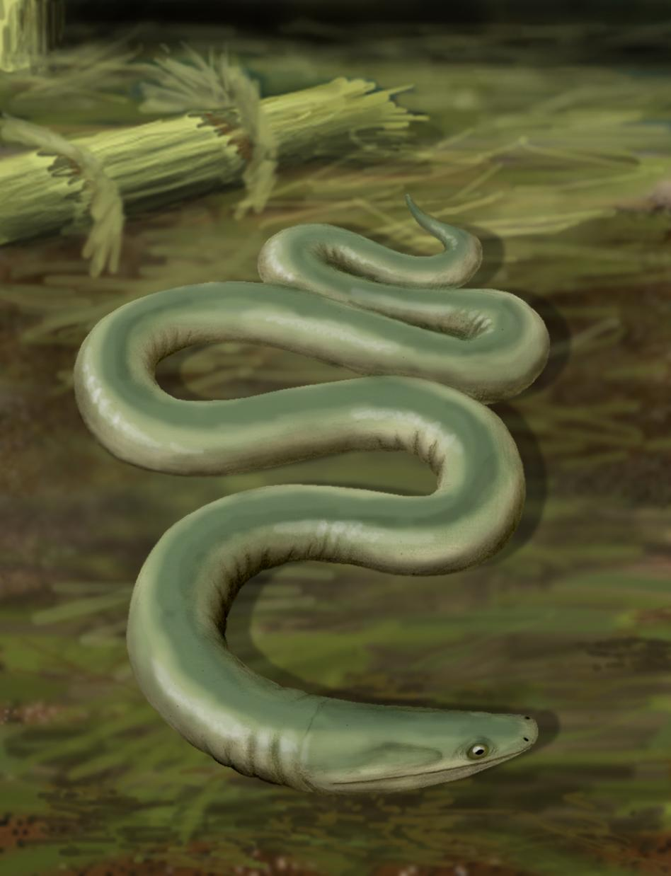 Life restoration of Oestocephalus amphiuminus.